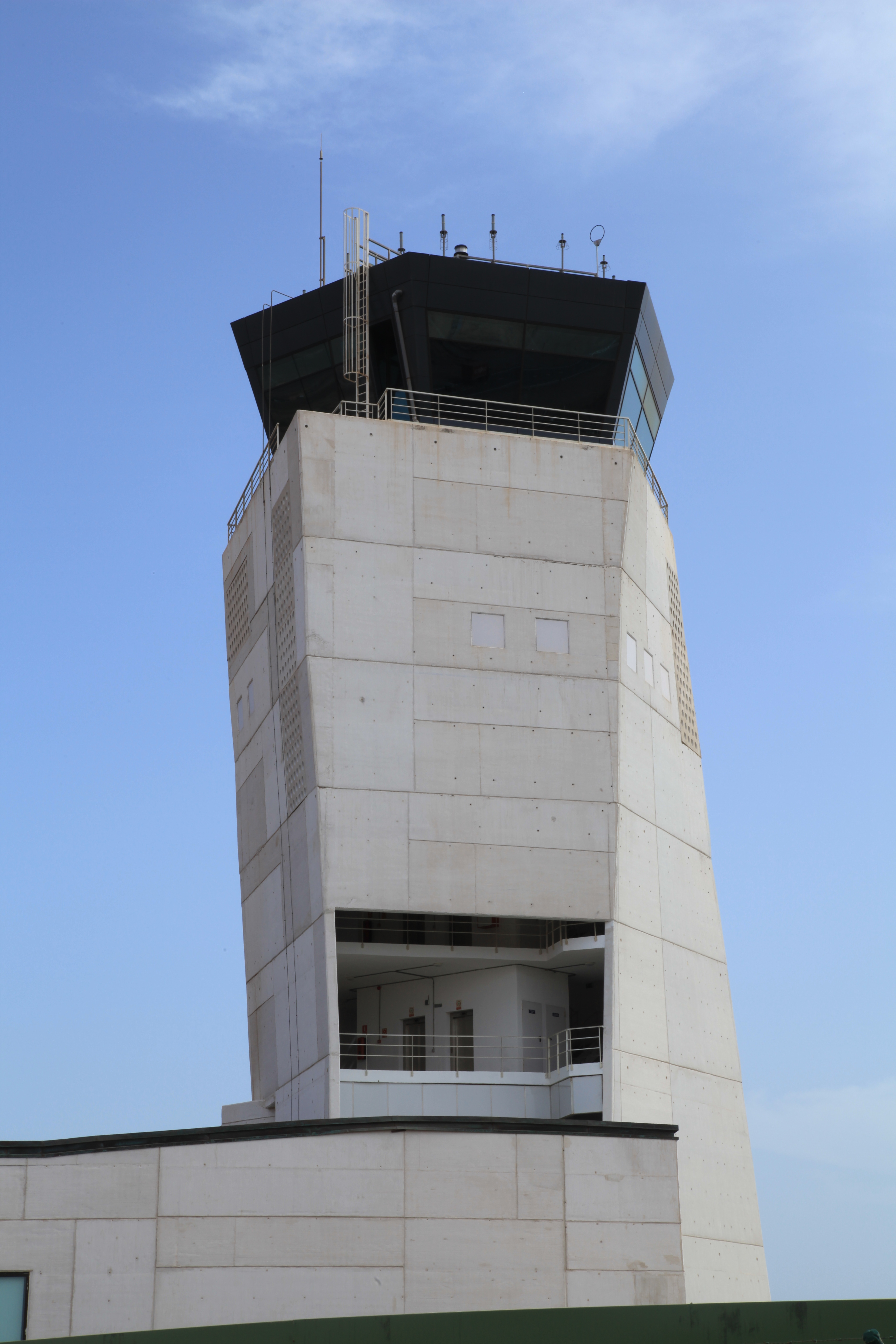 Tower of the airport in Puerto del Rosario, Fuerteventura, Canary Islands